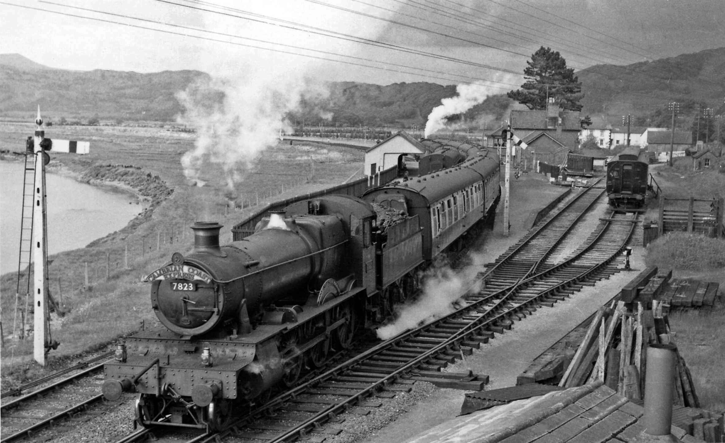 Down 'Cambrian Coast Express' at Glandyfi. View NE, towards Dovey Junction, Machynlleth, Welshpool etc.; ex-Cambrian main line, Whitchurch - Oswestry - Welshpool - Machynlleth - Aberystwyth. The line has remained open, but the station was closed 14/6/65. This celebrated express left Paddington at 10.10 and ran via Birmingham (Snow Hill), Shrewsbury (reverse), Welshpool and Machynlleth, where it split into Pwllheli and Aberystwyth portions, the latter arriving at its destination at 16.05. It ceased to run after March 1967, hauled by 'Manors' almost to the last, but was restored later running from Euston. The locomotive here is 4-6-0 No. 7823 'Hook Norton Manor' (built 12/50, withdrawn 7/64). An up train is at the opposite platform, heading for Dovey Junction up the estuary